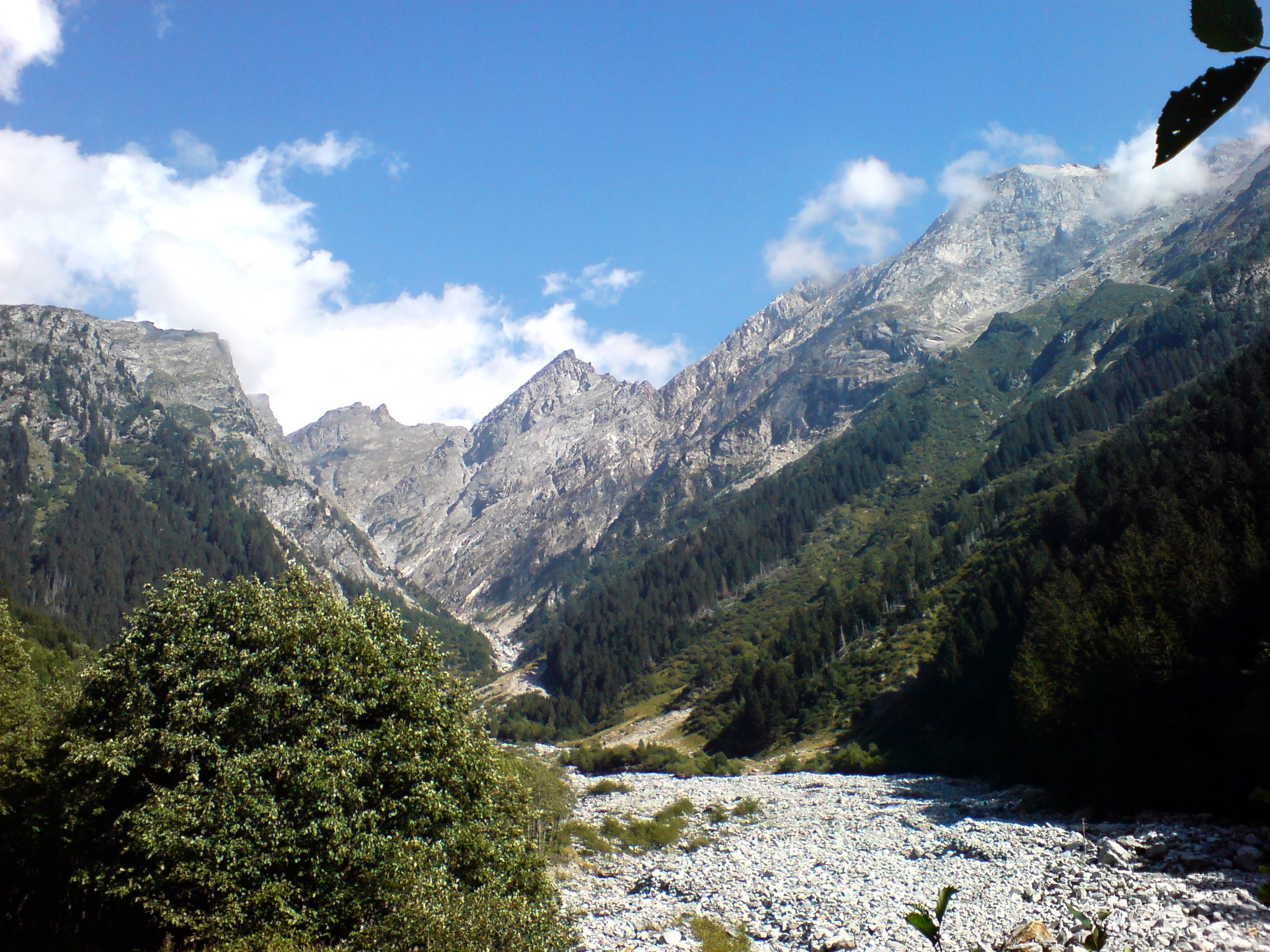 Val Soi, east of Dangio, Ticino.